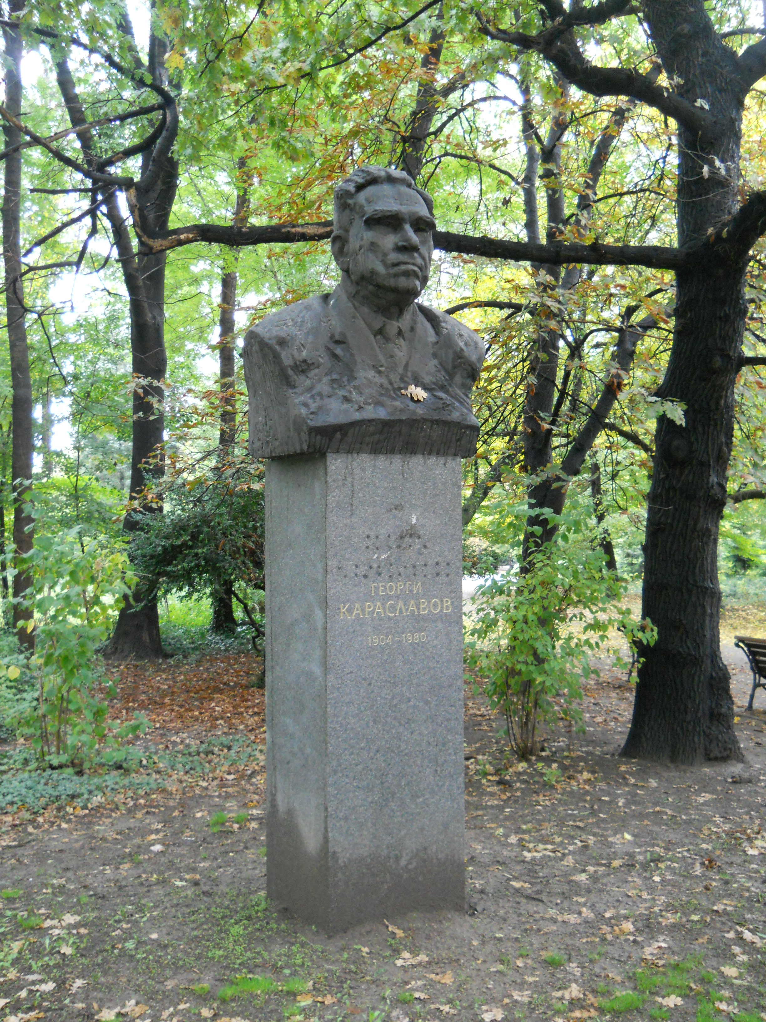 Monument of Bulgarian writer Georgi Karaslavov in Sofia, Bulgaria